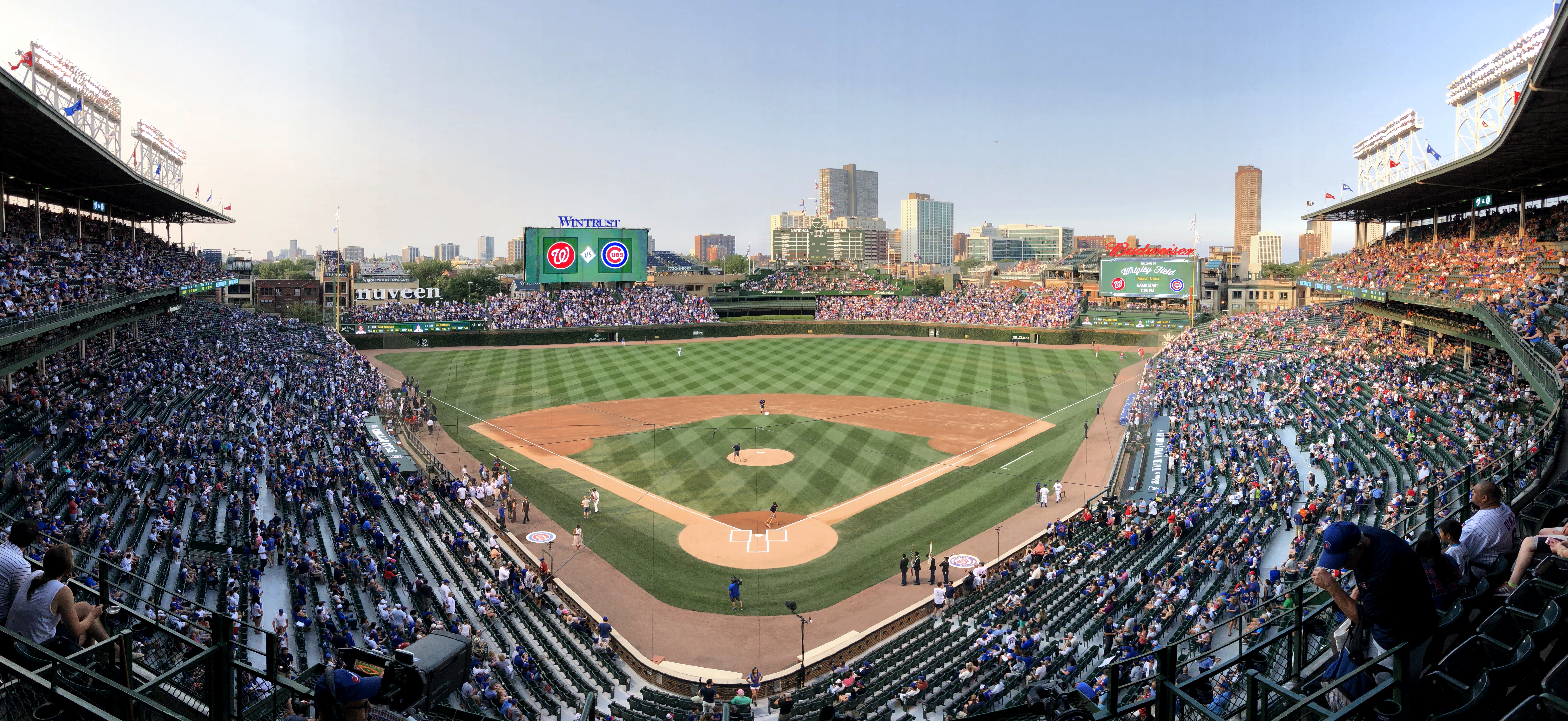 Sunday Night Baseball between the Chicago Cubs and Washington Nationals at Wrigley Field